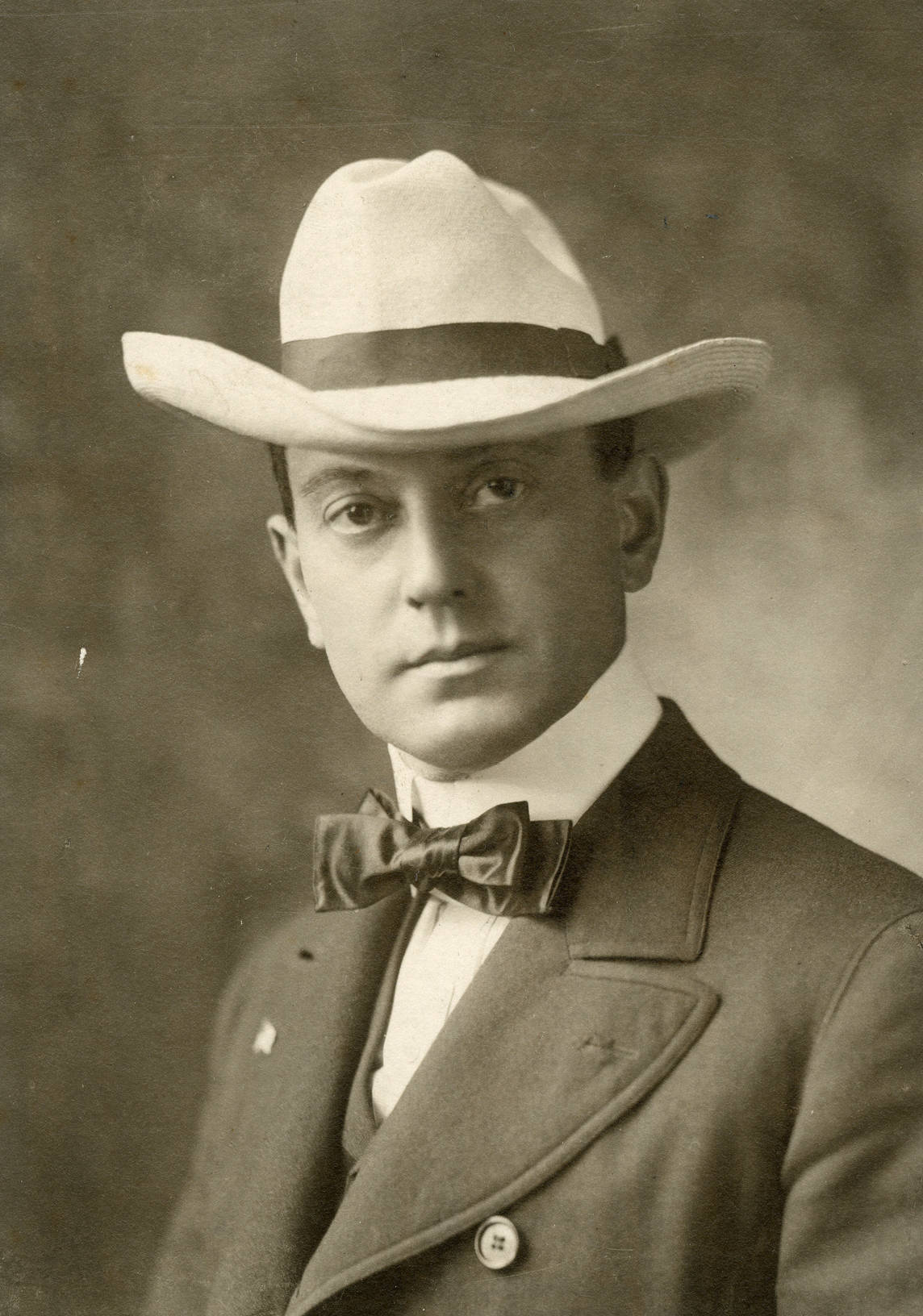 James Neill, stock actor Subjects: actors